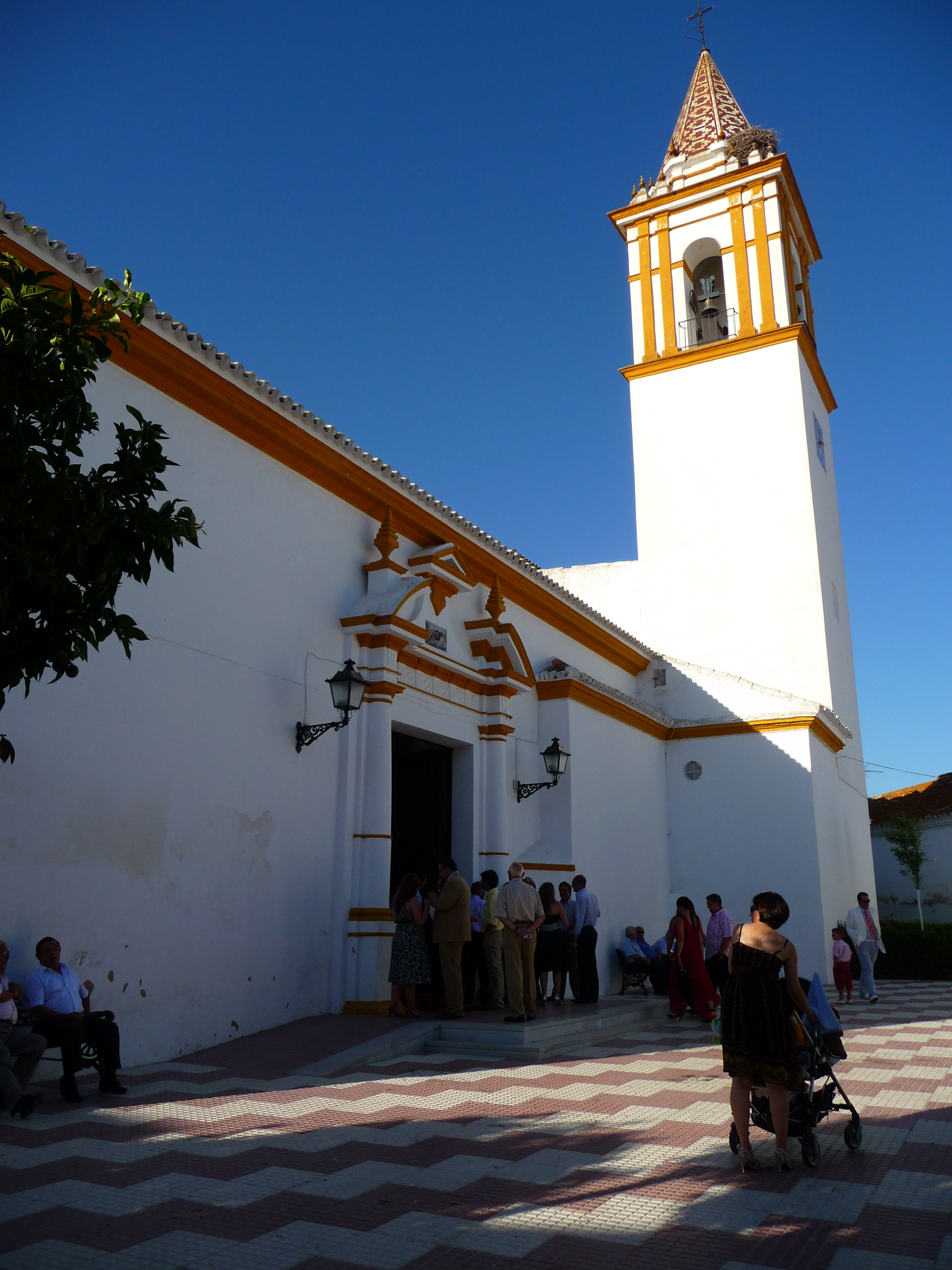 Villarrasa, province of Huelva (Spain)